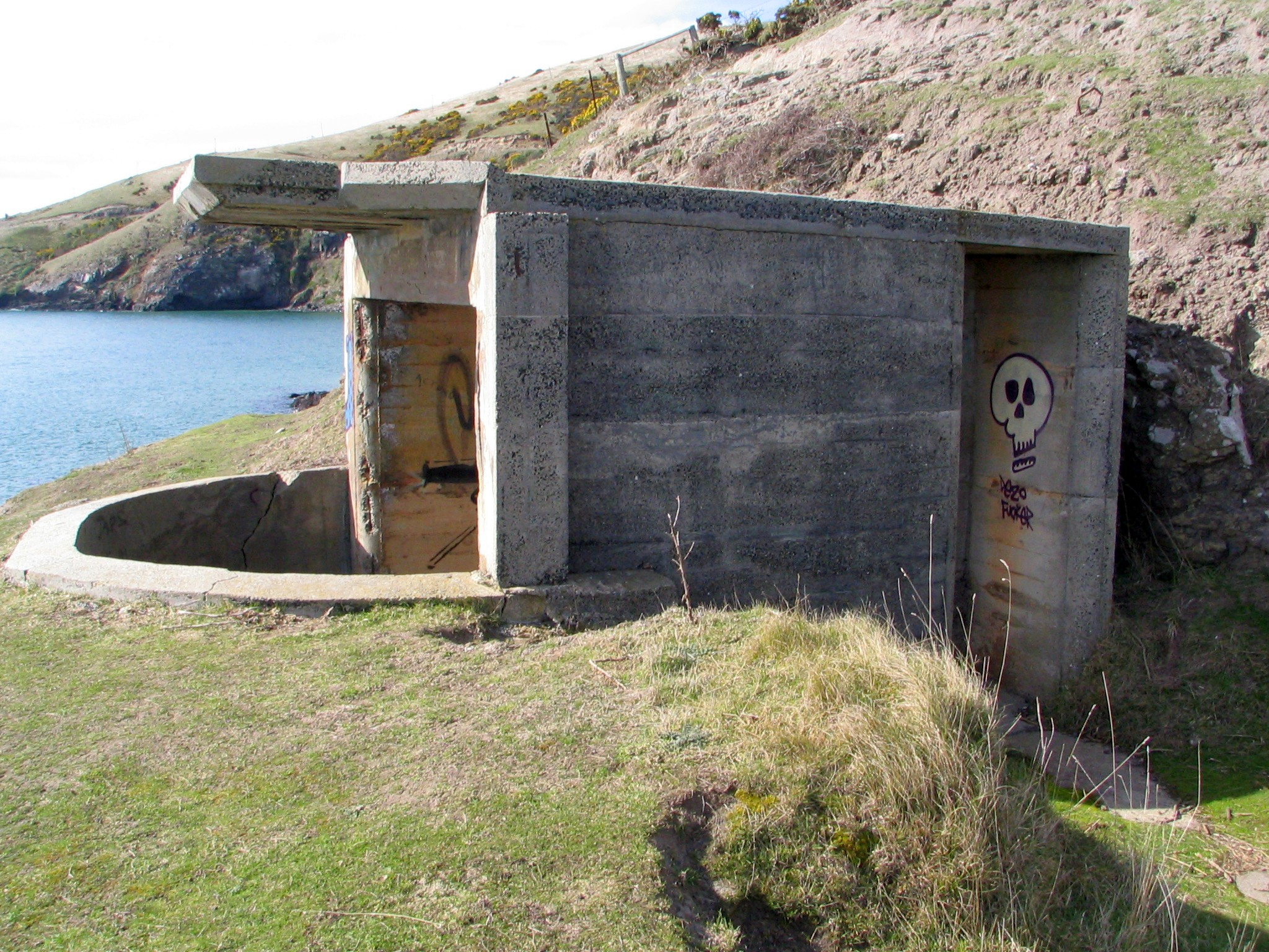 abandoned gun emplacement at Harrington Point, New Zealand.